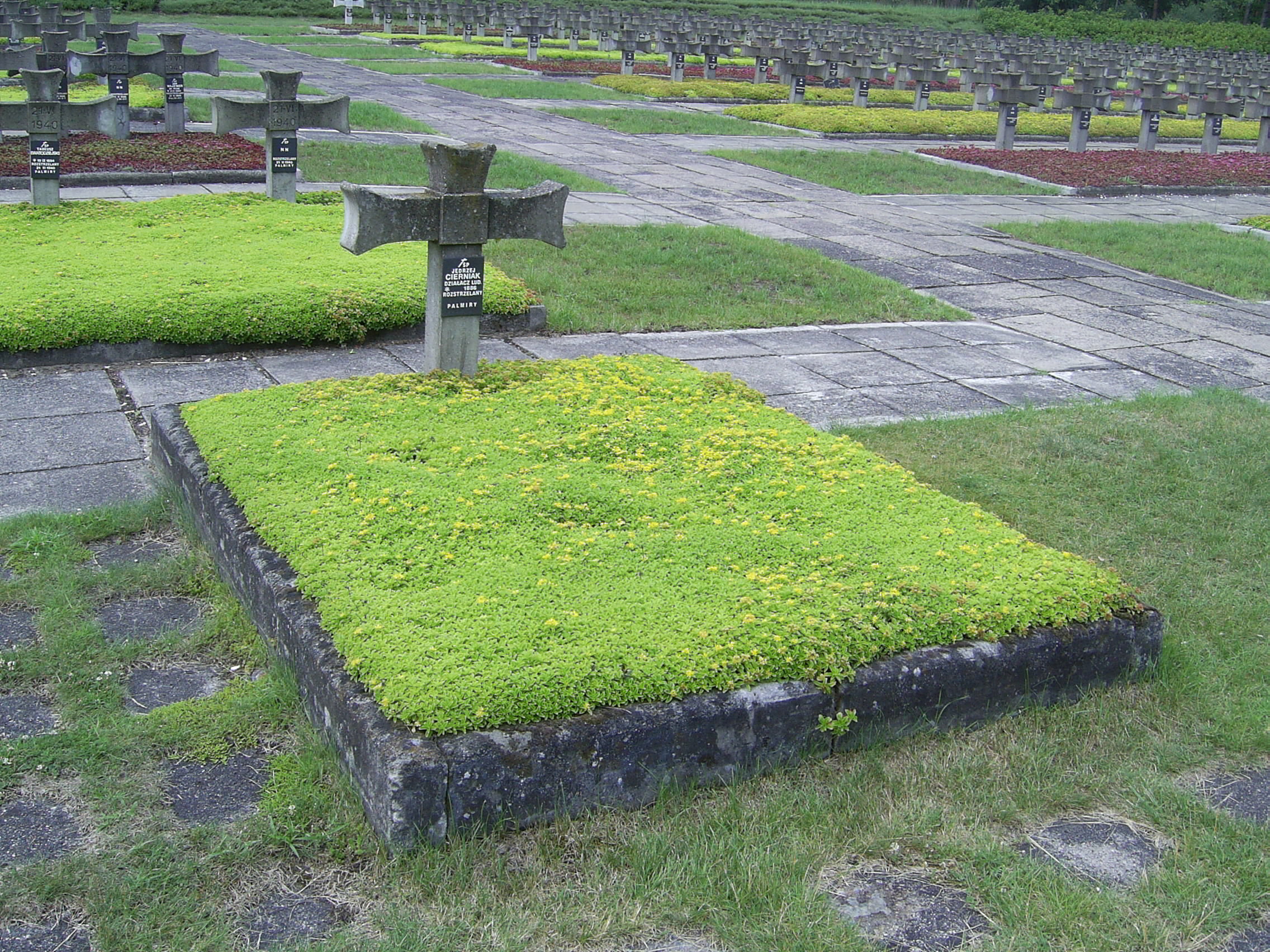 Palmiry Cemetery